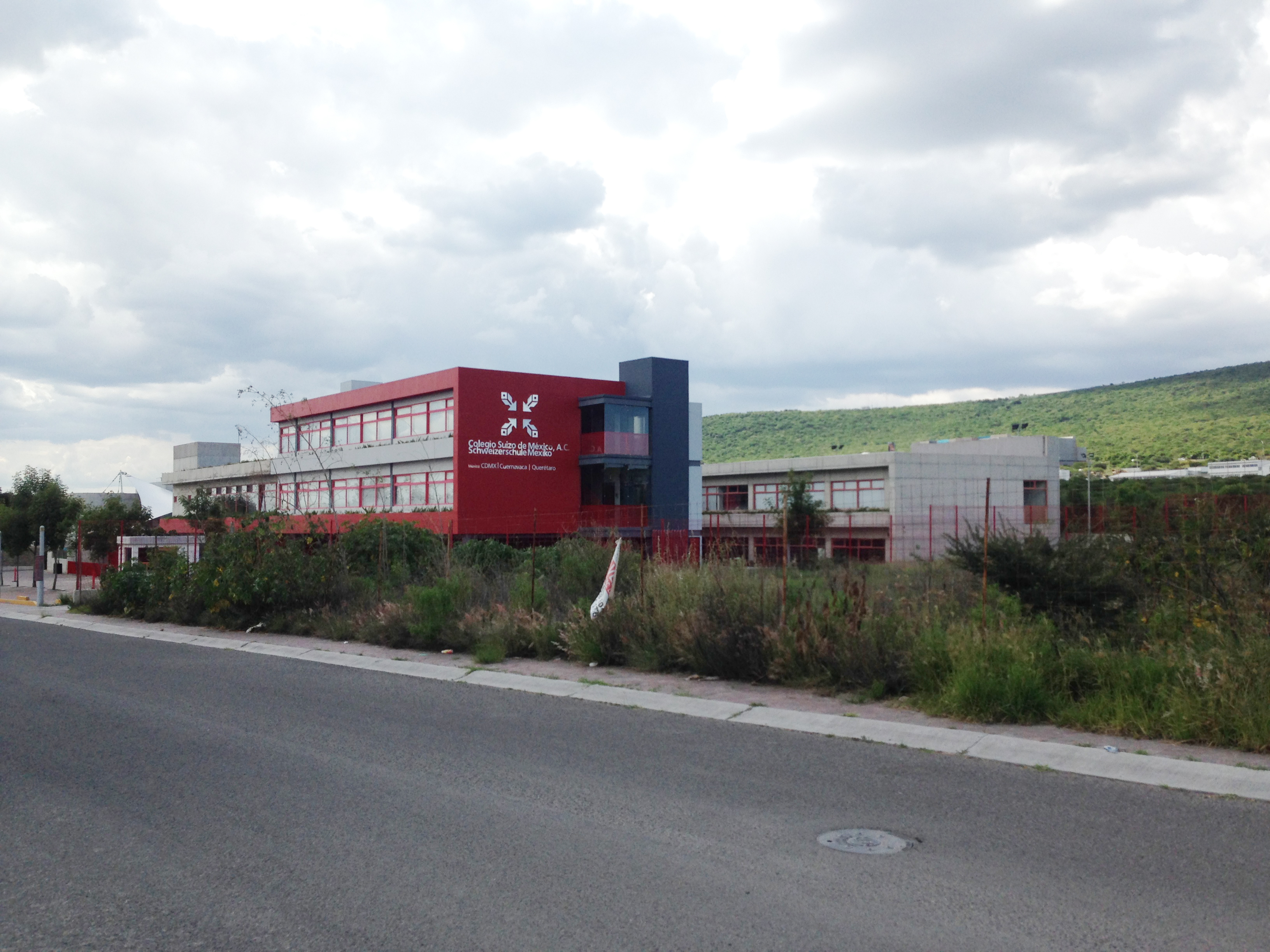 Colegio Suizo de México Campus Querétaro - Circuito la Cima No. 901, Fraccionamiento La Cima, C.P. 76146, Santiago de Querétaro, Querétaro, México.